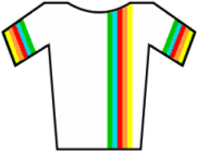 Maillot arco iris (Copa del Mundo)